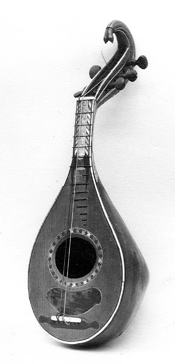 Italian; Mandora; Chordophone-Lute-plucked-fretted